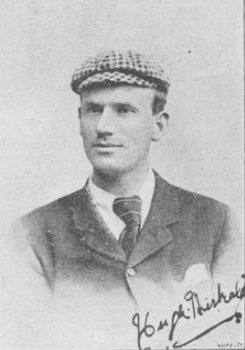 Scottish professional golfer Hugh Kirkaldy (1868-1897), circa 1895.